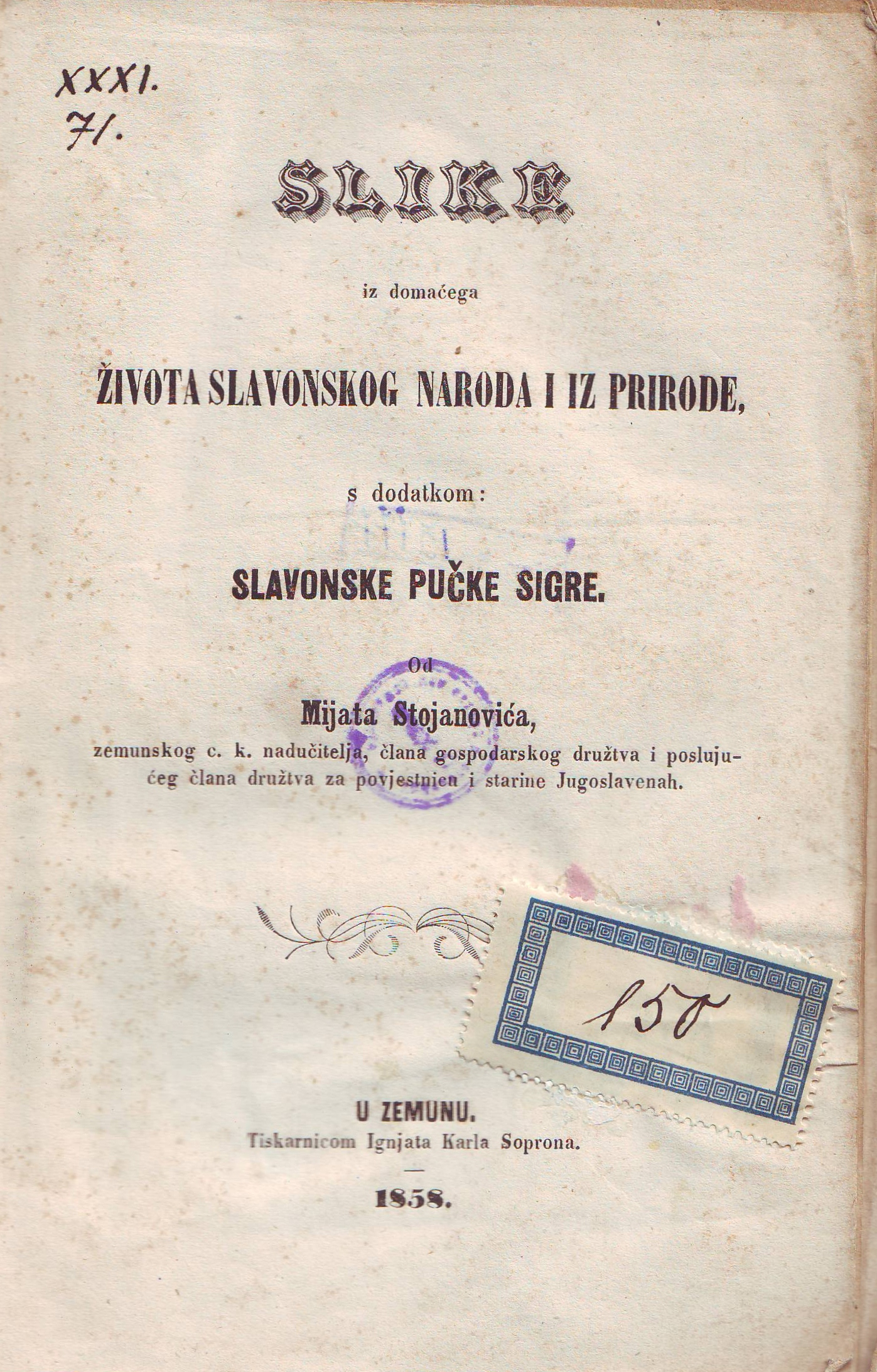 First page of the book Slike iz domaćega života slavonskog naroda i iz prirode (1858) by Mijat Stojanović. Srpski (latinica): Prva strana dela Mijata Stojanovića Slike iz domaćega života slavonskog naroda i iz prirode (1858).